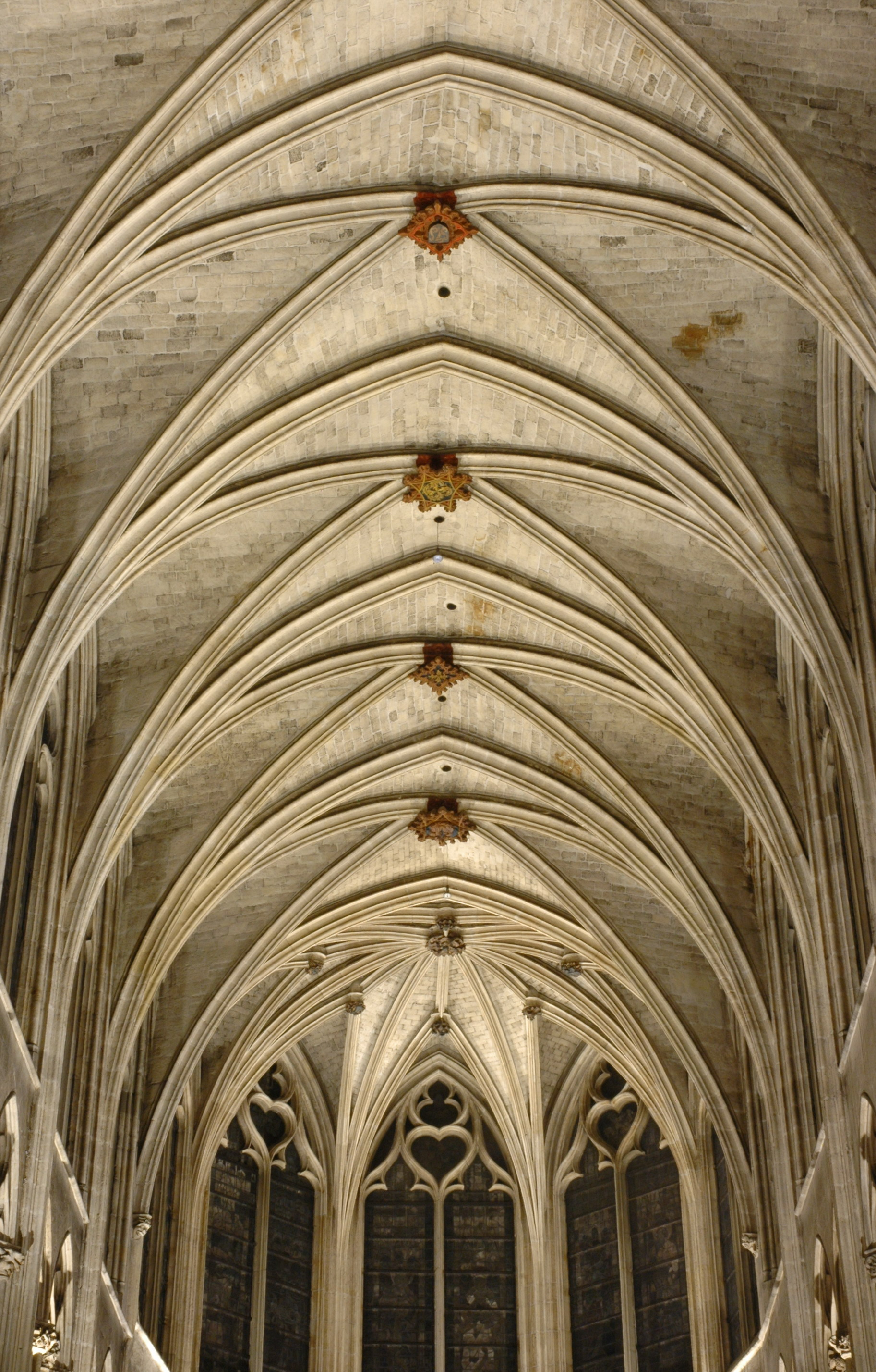 Gothic quadripartite cross-ribbed vaults of the Saint-Séverin church in Paris.